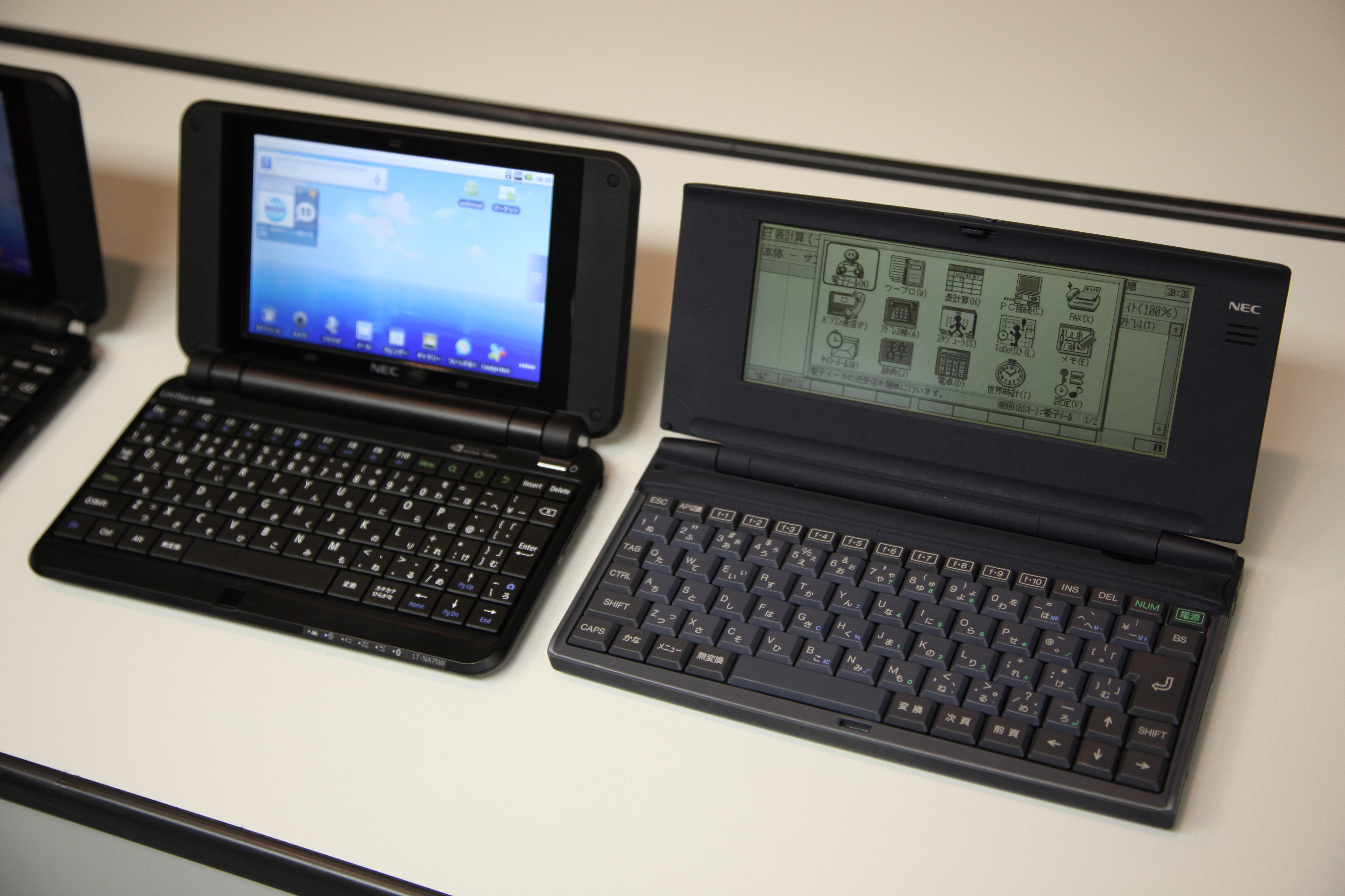 NEC LifeTouch NOTE and MobileGear